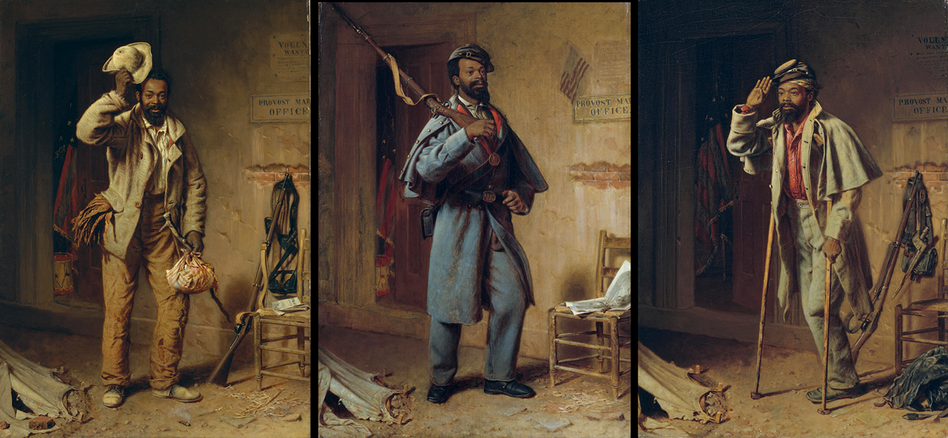 A Bit of History: The Contraband; The Recruit; The Veteran, oil on canvas, Metropolitan Museum of Art